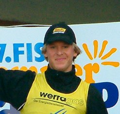 Todd Lodwick wins the Sommer Gand Prix 2005